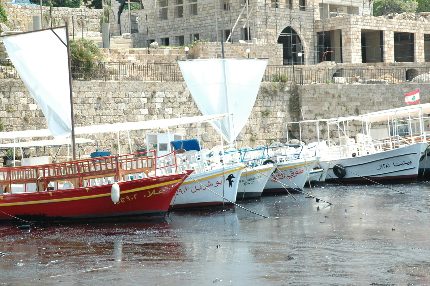 Boats in the oil-polluted harbour of Byblos, Lebanon.